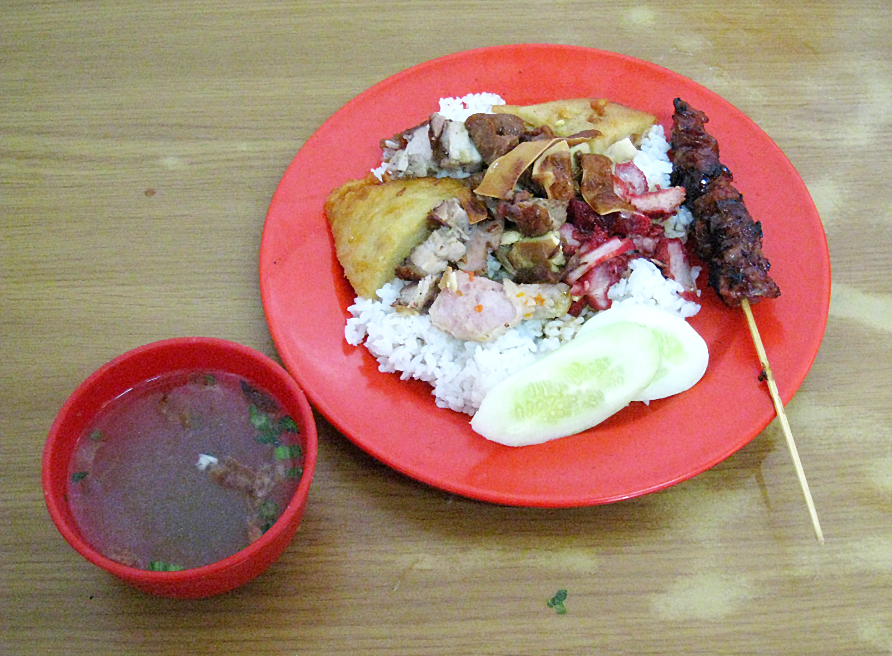 Nasi Campur Kenanga, Indonesian Chinese mixed rice with pork satay, several types of Chinese pork barbecues, and salted vegetables soup.